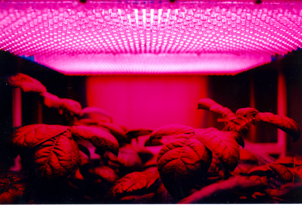 A panel of red LEDs used for illumination for a plant growth experiment with possible future application to food growing in space. From spuds to space medicine. Quantum Devices Inc., of Barneveld, Wis., builds the light-emitting diodes used in medical devices and for growing plants, like potatoes, inside the ASTROCULTUREŠ facility -- a plant growth unit developed for use on the Space Shuttle by the Wisconsin Center for Space Automation and Robotics (WCSAR). WCSAR is one of 16 NASA Commercial Space Centers that help companies fly experiments in space. The ASTROCULTUREŠ facility has flown on eight Space Shuttle missions, including this one in 1995 in which potatoes were grown in space. The LEDs will be used in the ADVANCED ASTROCULTUREŠ unit next year on the International Space Station. Such commercial payloads are flown under the Space Product Development Program at NASA's Marshall Space Flight Center in Huntsville, Ala. NASA's lead center for microgravity research.